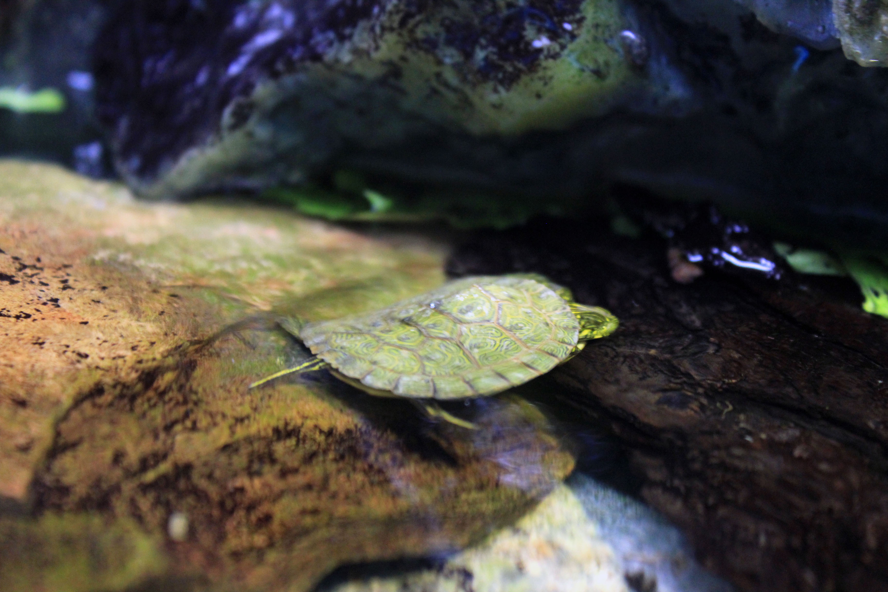 Pictures of fine cold-blooded animals A texas cooter, this one is a mutant with 2 heads